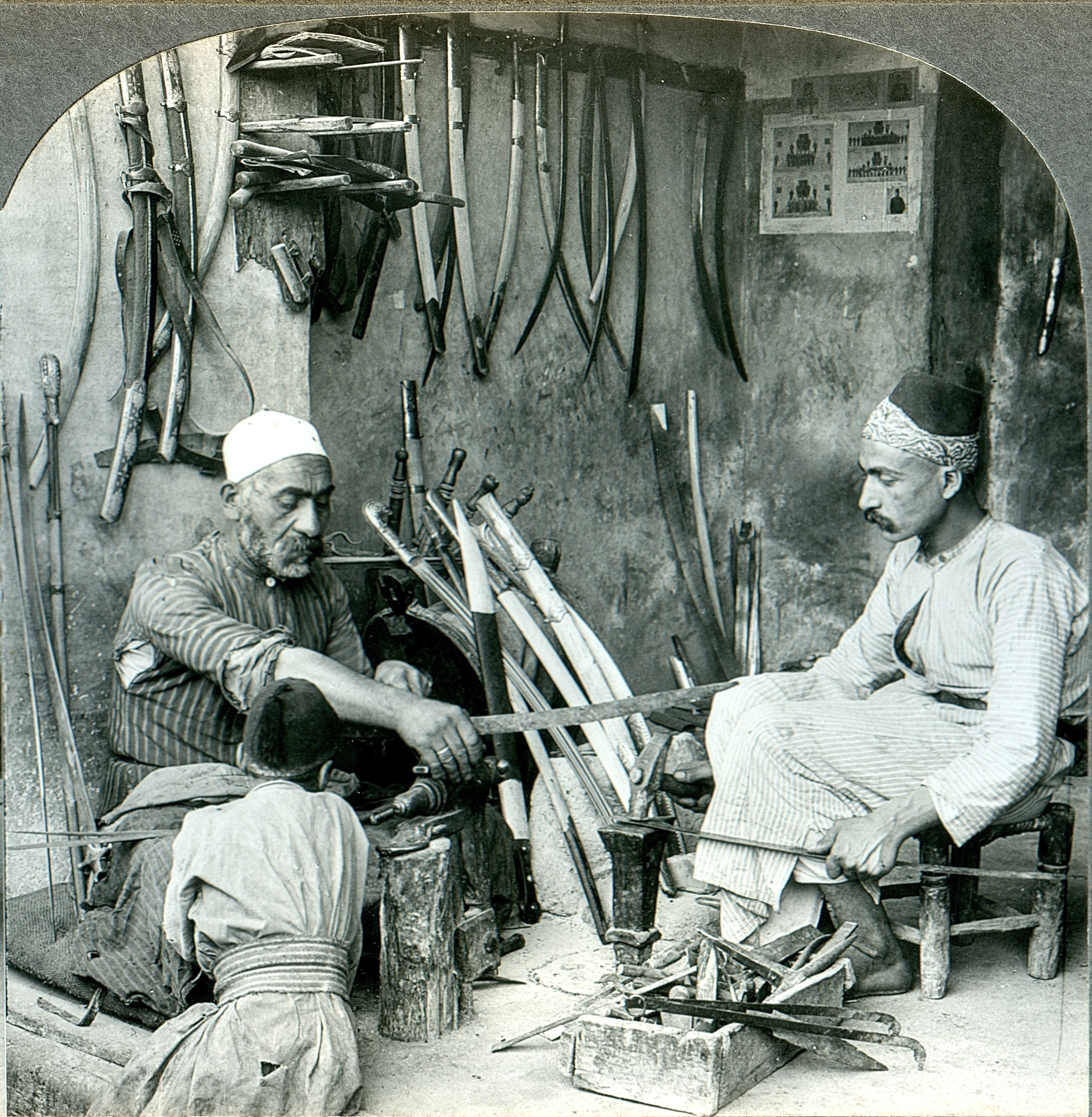 A sword maker of Damascus, Syria